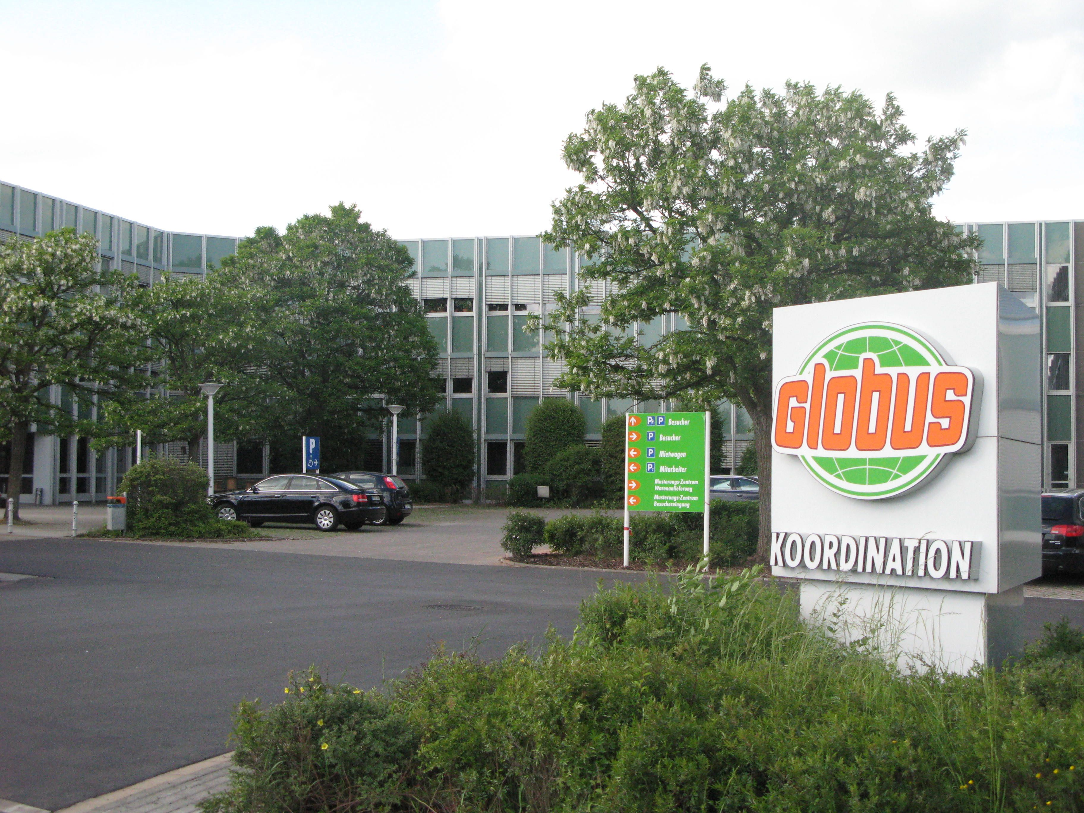 Globus SB-Warenhaus Koordination in St. Wendel